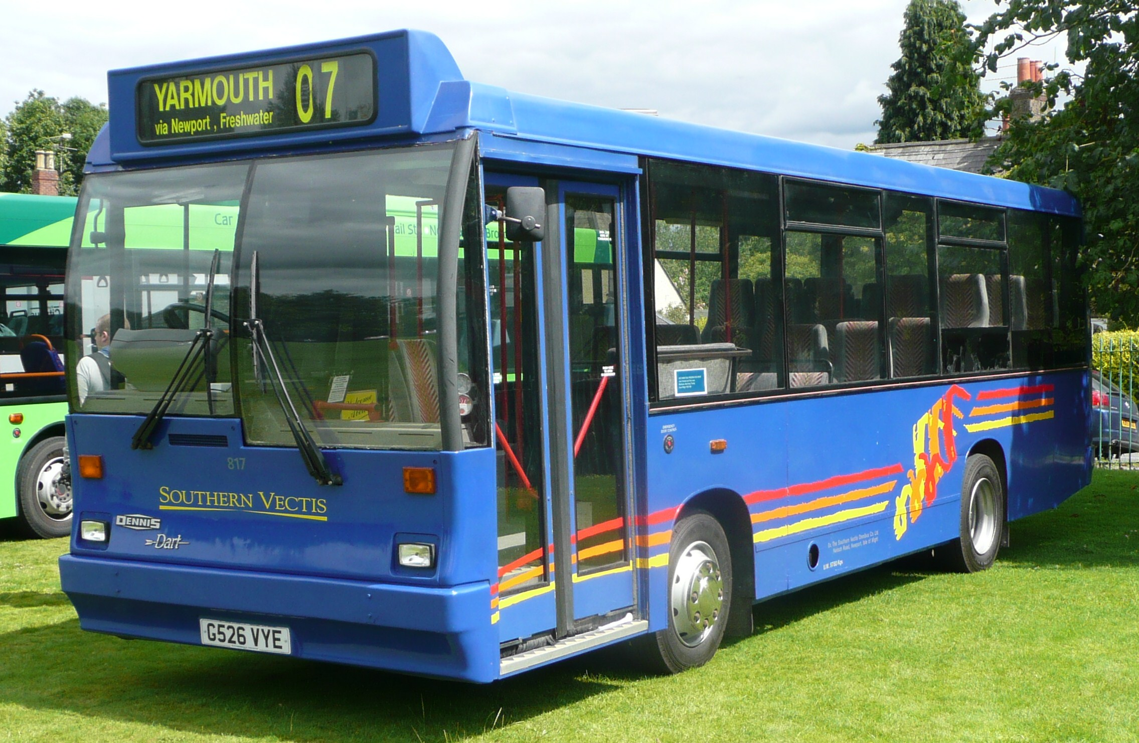 Preserved Southern Vectis 817 (G526 VYE), a Dennis Dart/Duple Dartline, at the 2008 Alton bus rally in Anstey Park. This bus was bought by Southern Vectis from London United. The bus left Southern Vectis in 2006, and is now preserved privately.